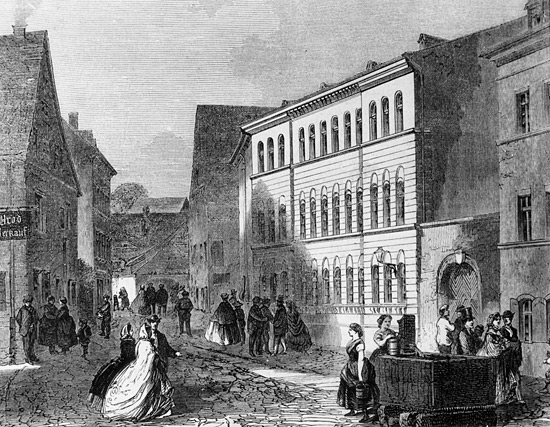 Bergakademie in Freiberg